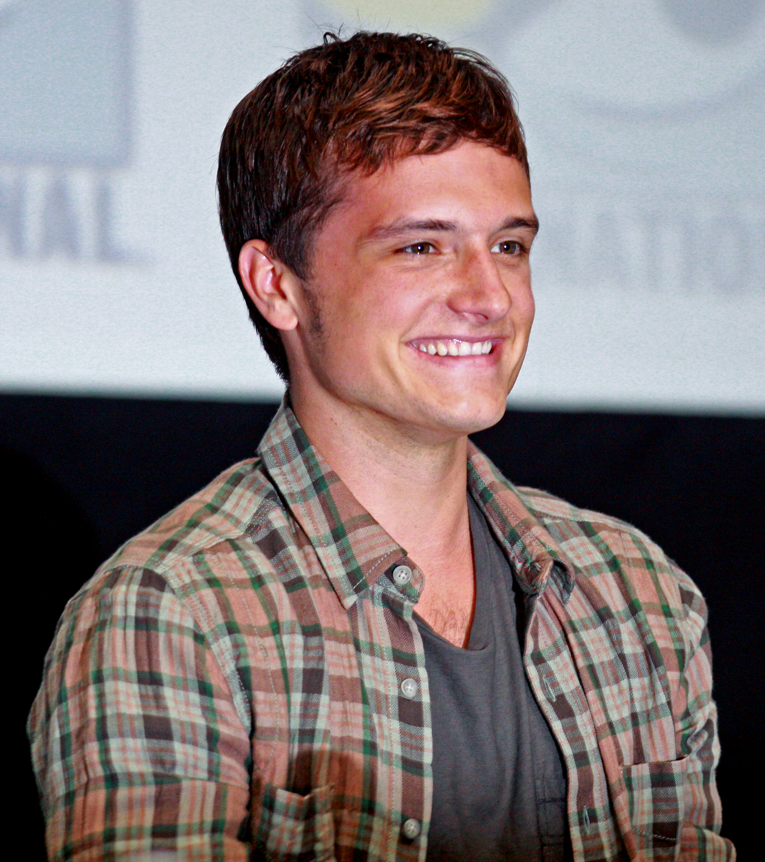 Josh Hutcherson at the 2013 San Diego Comic Con International in San Diego, California.